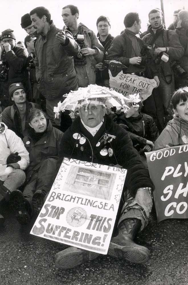 Protesters block the road to stop the export lorries gaining access to the port. Image David Johnson